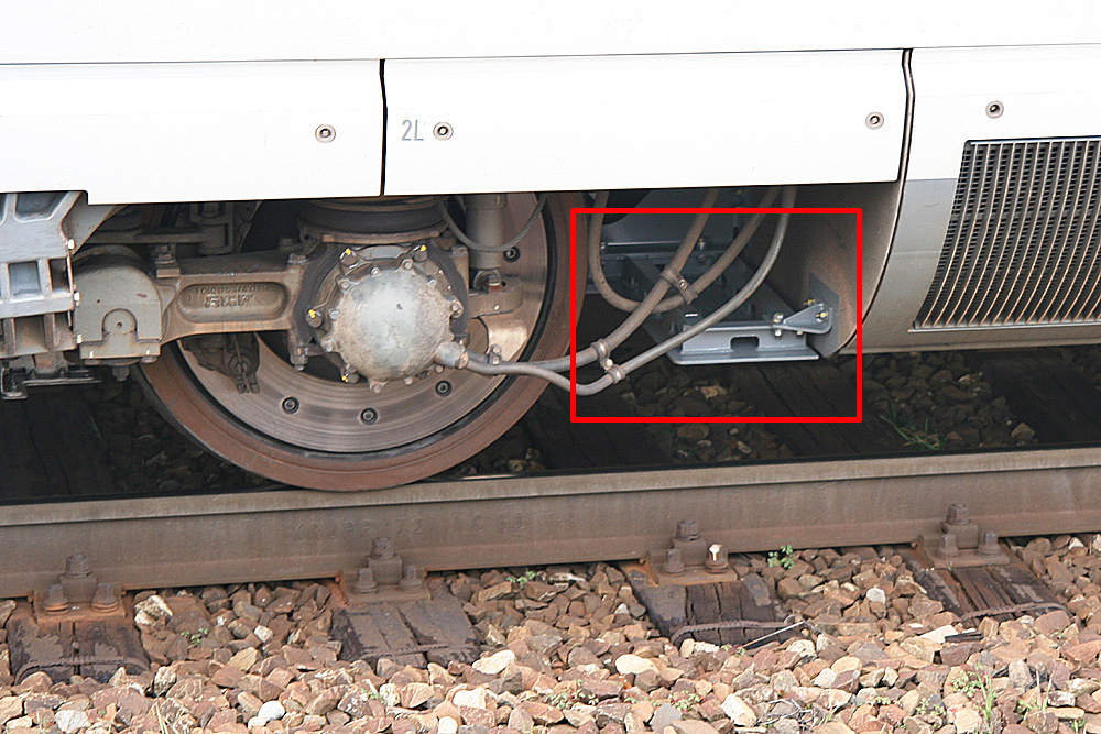 gravel protection tin on ICE 3MF near the bogie